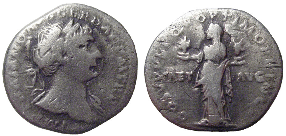 This is a photo of an ancient roman coin. A denarius of Trajan wit Aeternitas on the reverse.